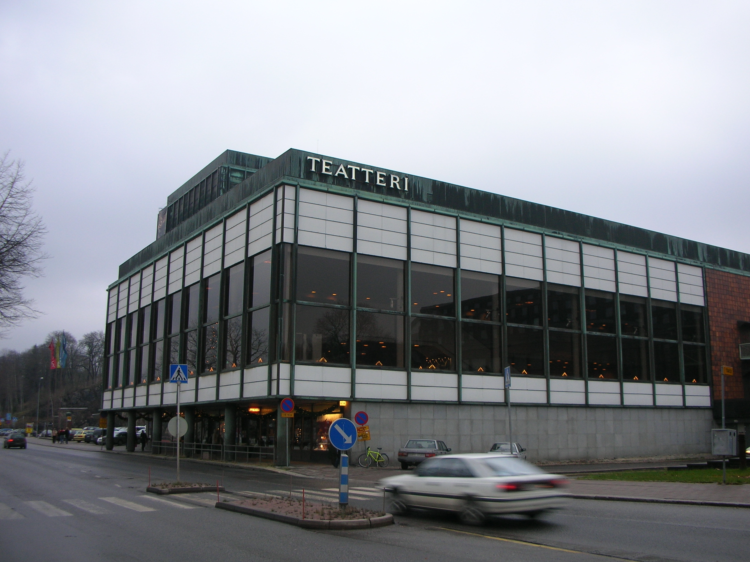 Turku City Theatre (1955–1962, architects Aarne Hytönen, Risto-Veikko Luukkonen, Helmer Stenros)